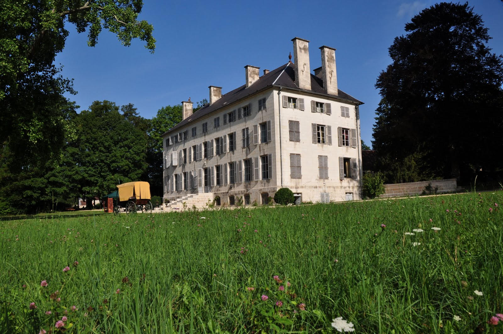 En 1825, la forteresse fut détruite et remplacée une Grande maison bourgeoise